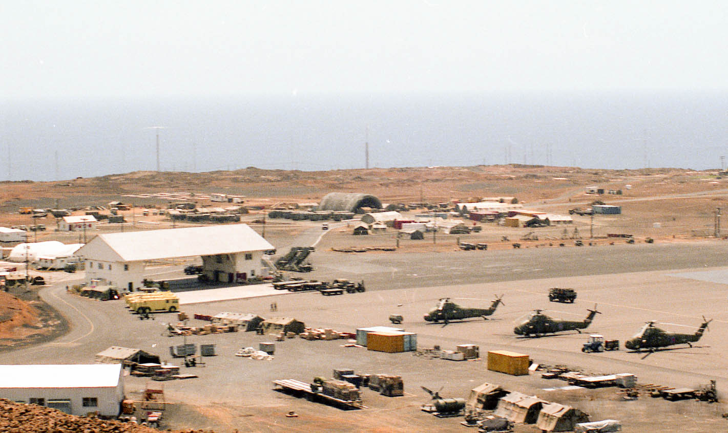 RAF Ascension Nov 83